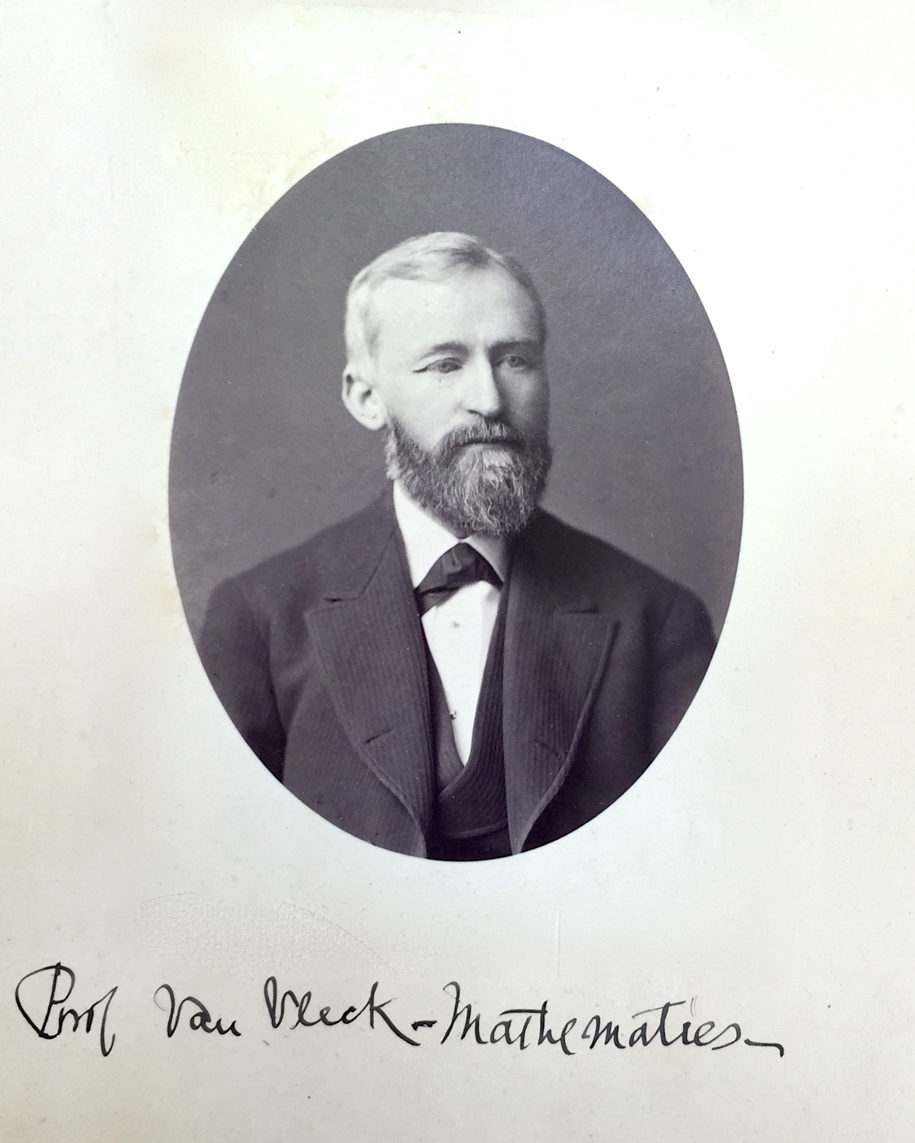 John Monroe Van Vleck (March 4, 1833–November 4, 1912) was an American mathematician and astronomer. He taught astronomy and mathematics at Wesleyan University in Middletown, Connecticut for more than 50 years (1853-1912) and served as acting university president twice. The Van Vleck Observatory (at Wesleyan University) and the crater Van Vleck on the Moon are named after him.